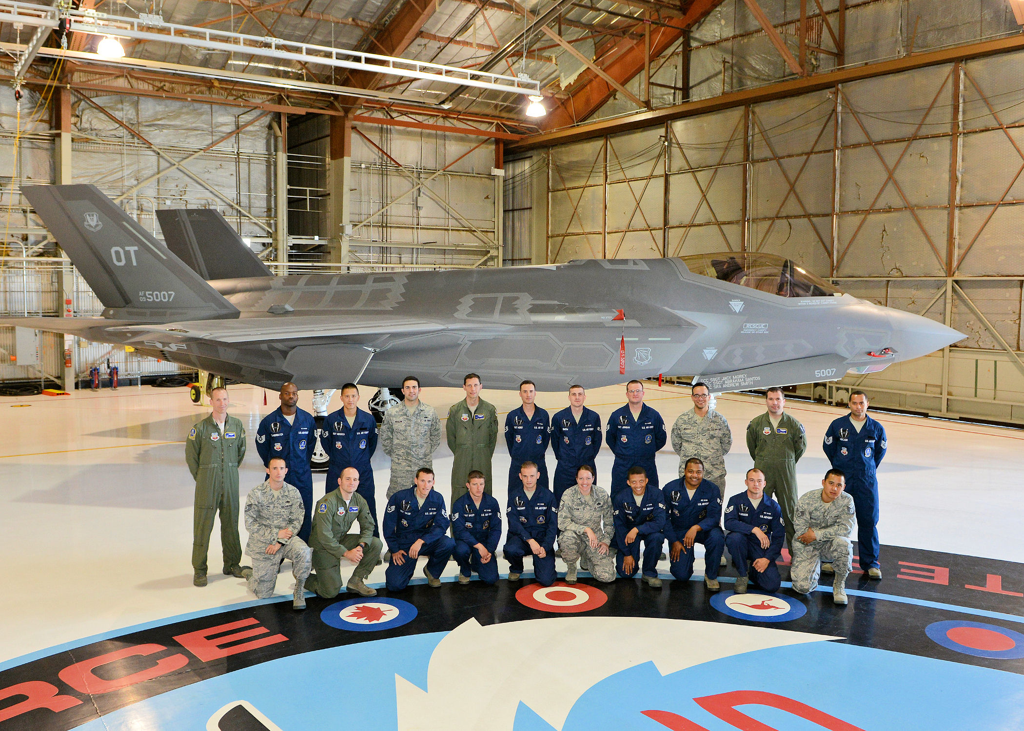 The 31st Test and Evaluation Squadron recently honored 16 dedicated crew chiefs during a recognition ceremony in Hangar 1810 June 14. The ceremony marked a milestone that coincided with the squadron’s recent acquisition of its first F-35 Lightning II aircraft specifically assigned for operational test and evaluation. (U.S. Air Force photo by Jet Fabara)